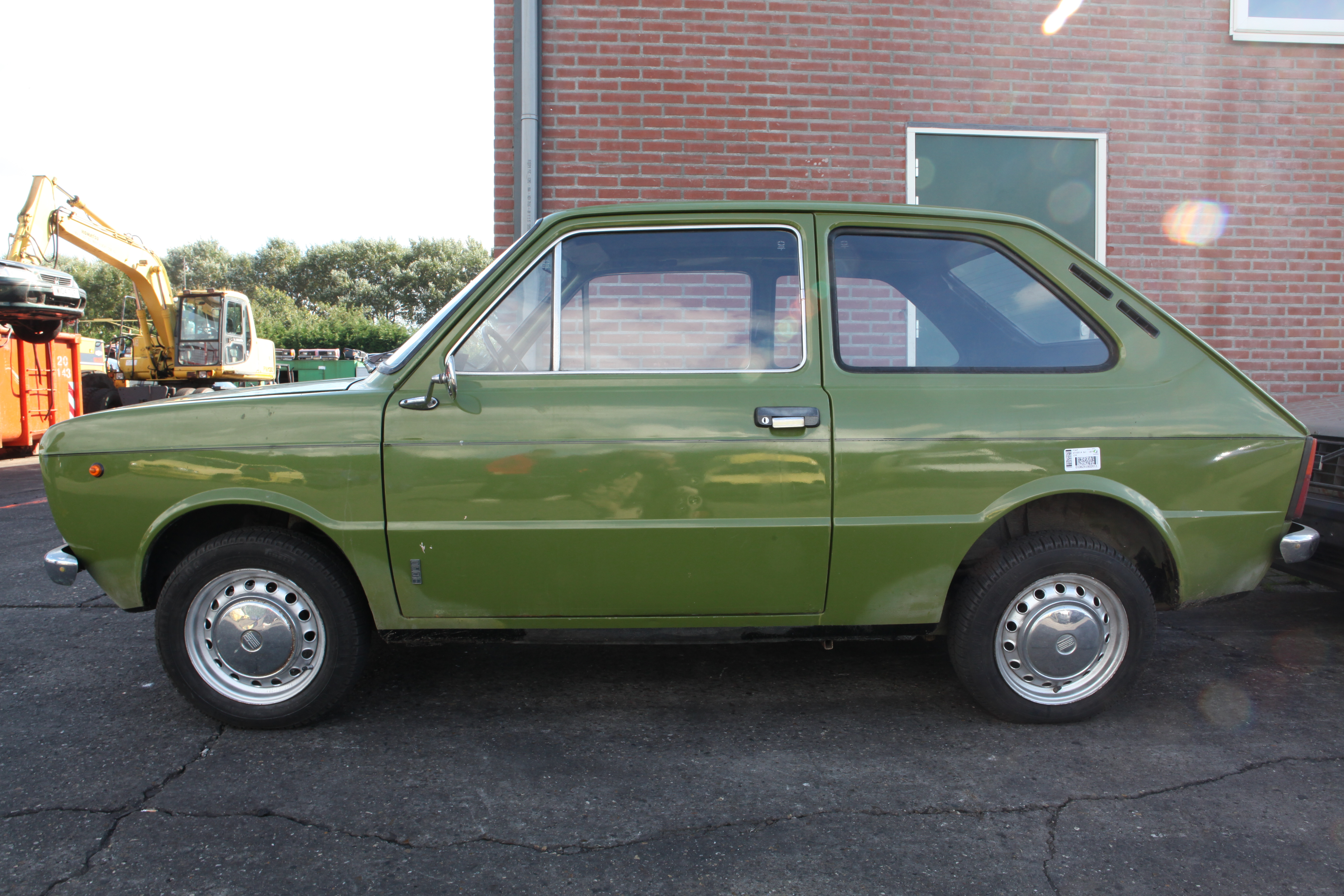 A 1977 Fiat 133.